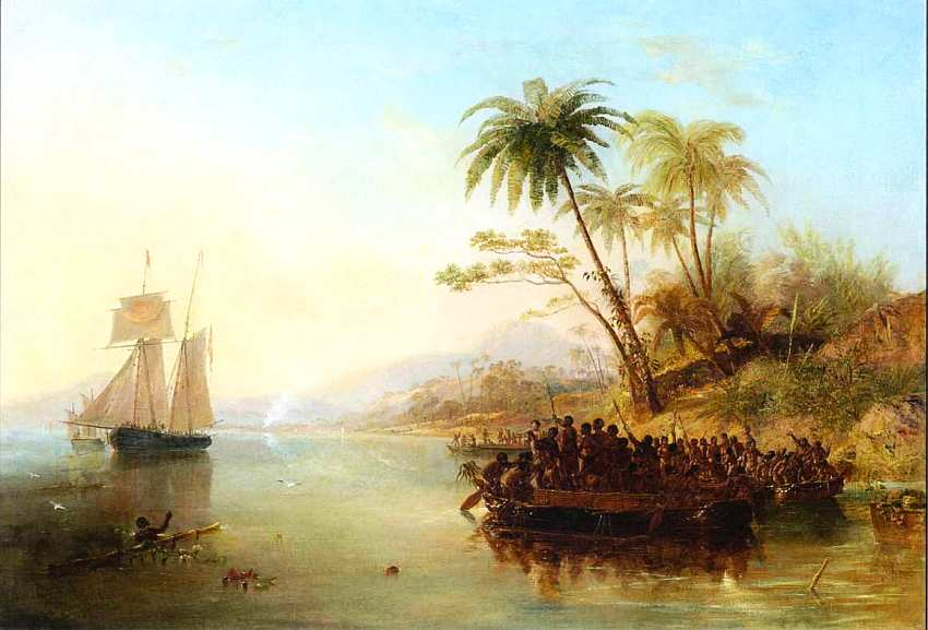 James Wilson Carmichael (1800–1868) Alternative names